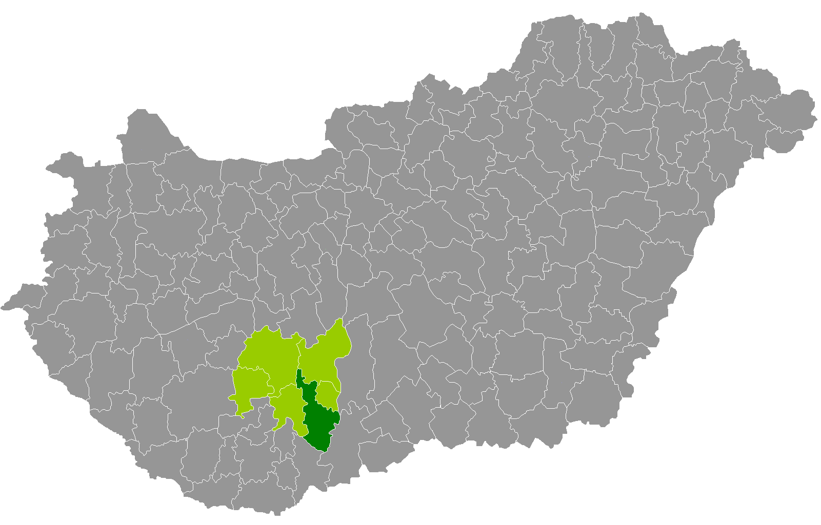 Location of Szekszárd District, Tolna, Hungary